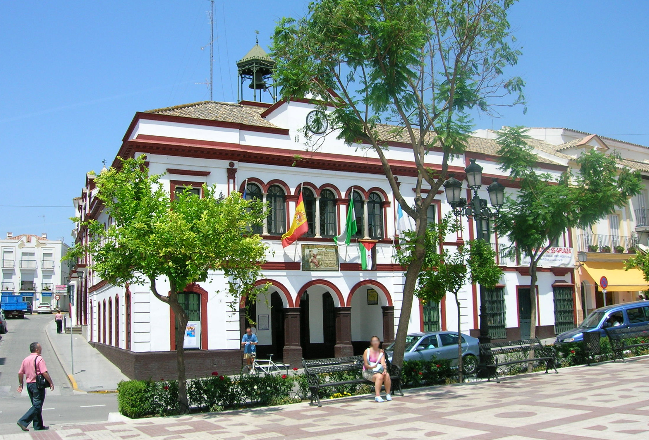 Lebrija Town Hall, province of Seville, Spain. The flags of European Union, Andalusia, Spain and Lebrija hang on flagpoles, while the flag of Western Sahara hangs from a window.